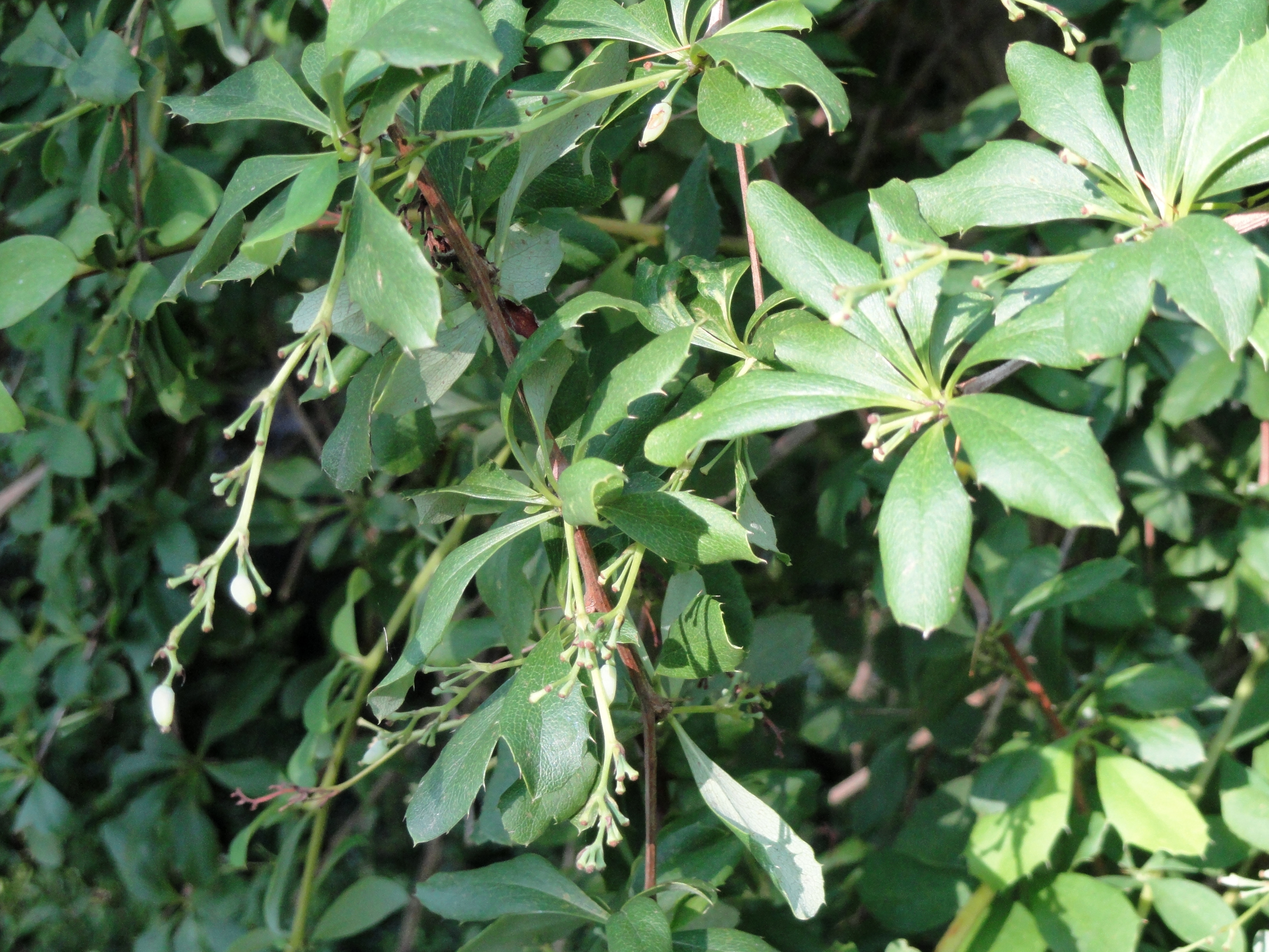 Botanical specimen in the Botanischer Garten, Frankfurt am Main, Germany.